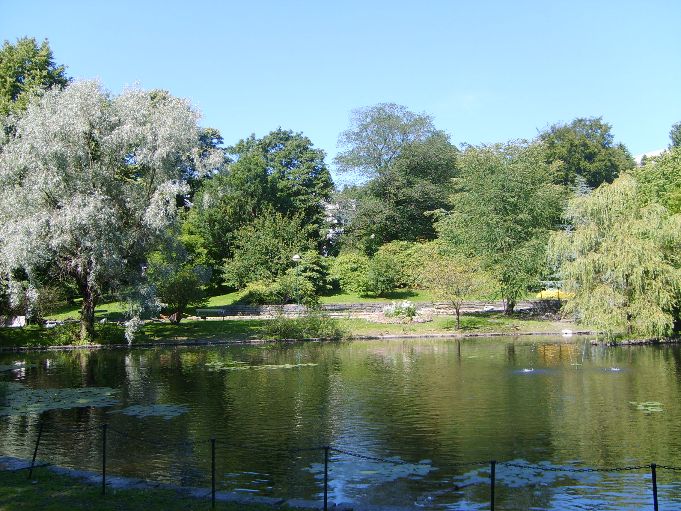 The Nygårdspark seen from one of its ponds. Taken July 26, 2006.